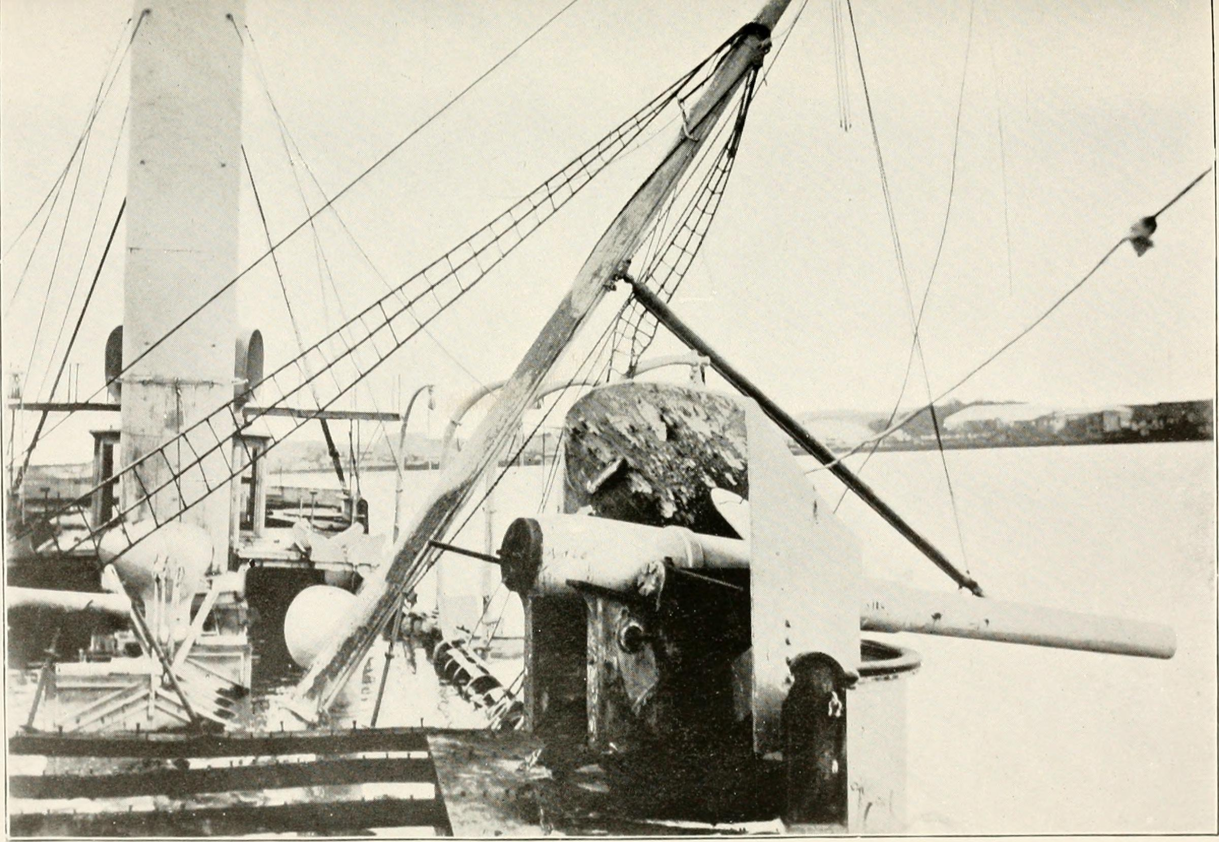 Title: The War with Spain, operations of the United States Navy on the Asiatic Station; reports of Rear-Admiral George Dewey on the Battle of Manila Bay, MAy 1, 1898, and on the investment and fall of Manila, May 1 to August 13, 1898 Year: 1900 (1900s) Authors: United States. Naval Force, Asiatic Station Dewey, George, 1837-1917 Subjects: Manila Bay, Battle of, Philippines, 1898 Manila (Philippines) -- Siege, 1898 Publisher: Washington, Govt. Print. Off. Text Appearing Before Image: ' Text Appearing After Image: 13119197. (Report of engagement at Manila Bay.) Fo. 6-0.) U. S. Flagship Olympia, Off Manila, PMUpplne Islands, May 3, 1898. Sir : 1 have the honor to make the following report of this shipsengagement with the enemy od May 1: On April 30 we stood down for the entrance to Manila Bay. At 9.42p. m. the crew were called to general quarters (the ship having beenpreviously cleared for action) and remained by their guns, ready toreturn the fire of the batteries if called upon. At about 11.30 p. m. we passed through Boca Grande entrance ofManila Bay. The lights on Corrigidor and Caballo islands and on SanNicolas Banks were extinguished. After this ship had passed in the battery on the southern shore ofentrance opened fire at the ships astern, and the McGulloch and theBoston returned the fire. At 4 a. m. of May 1 coffee was served out to officers and men. Atdaybreak sighted shipping at Manila. Shifted course to southward andstood for Cavite. At 5.06 two submarine mines were exploded near,Cavit